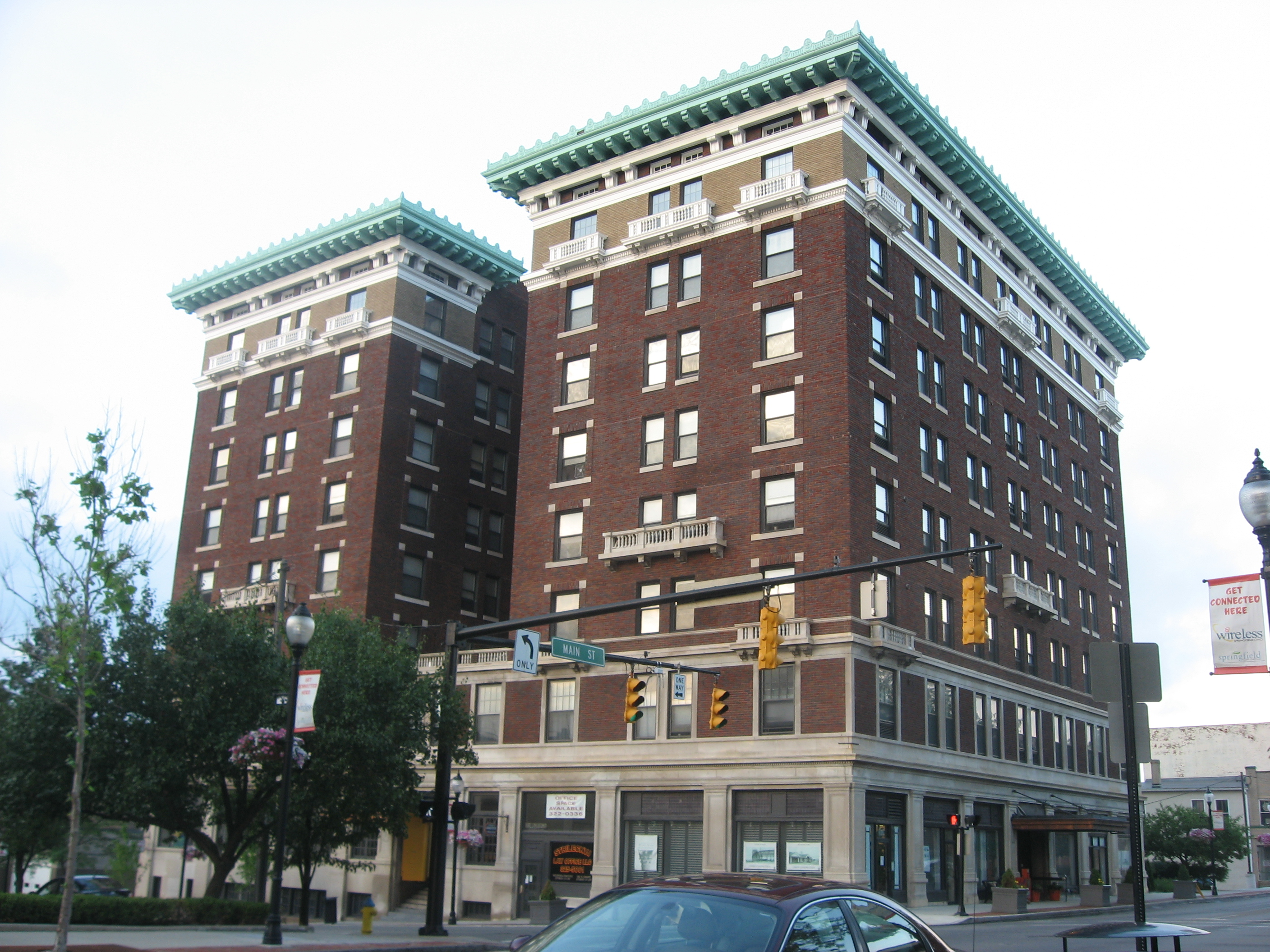 Western side of the Shawnee Hotel, located on the northeastern corner of the intersection of Main and Limestone Streets in downtown Springfield, Ohio, United States. Built in 1916, it is listed on the National Register of Historic Places.